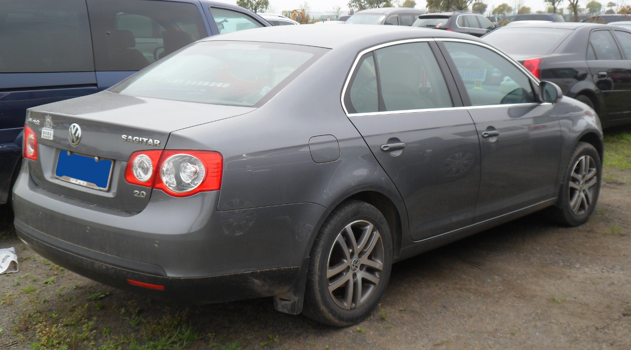 Volkswagen Sagitar photographed in Anting, Shanghai municipality, China.